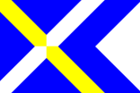 flag of Zlaté Moravce